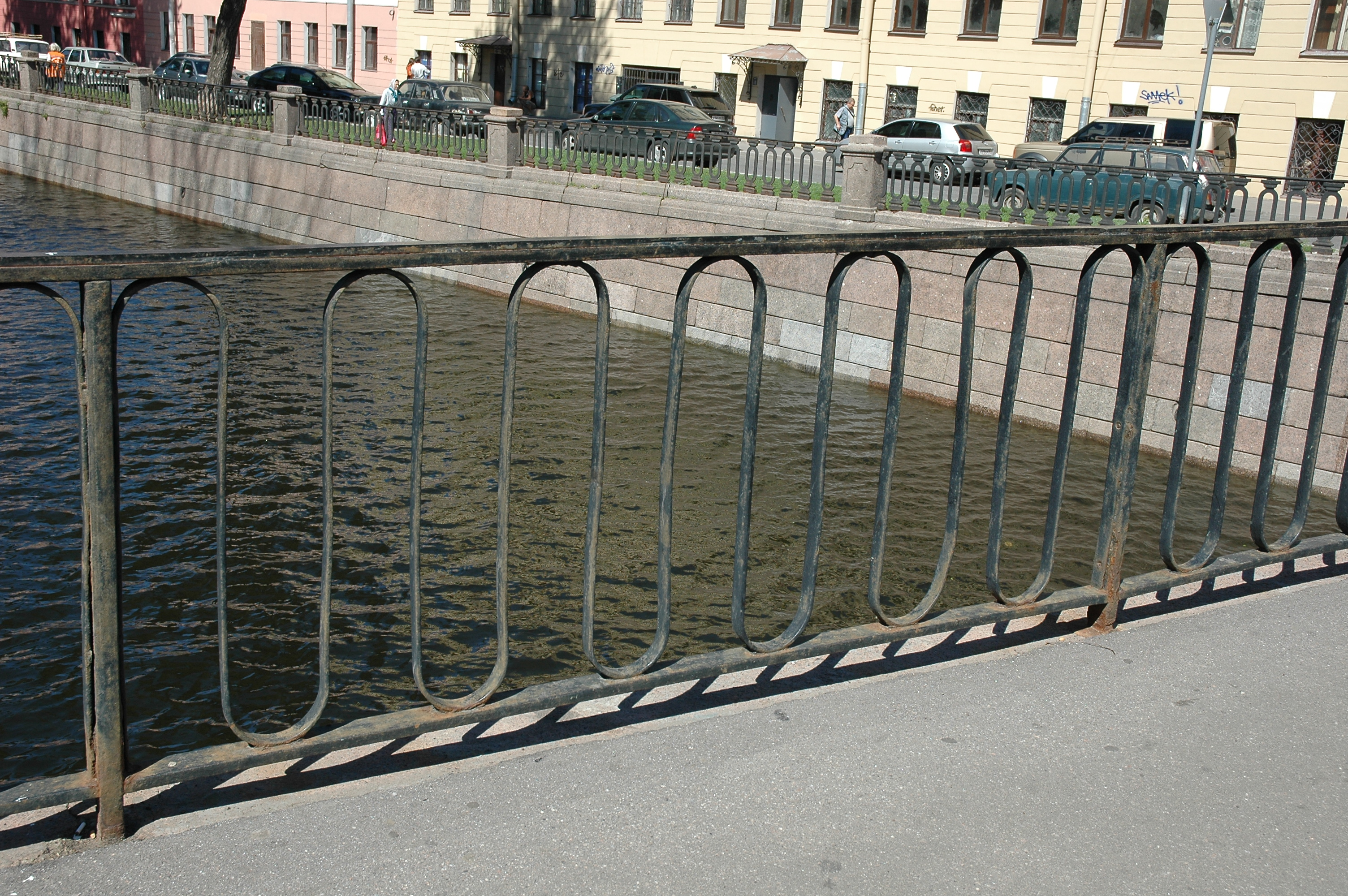 Kharlamov bridge across Griboedova canal in St Petersburg, fence